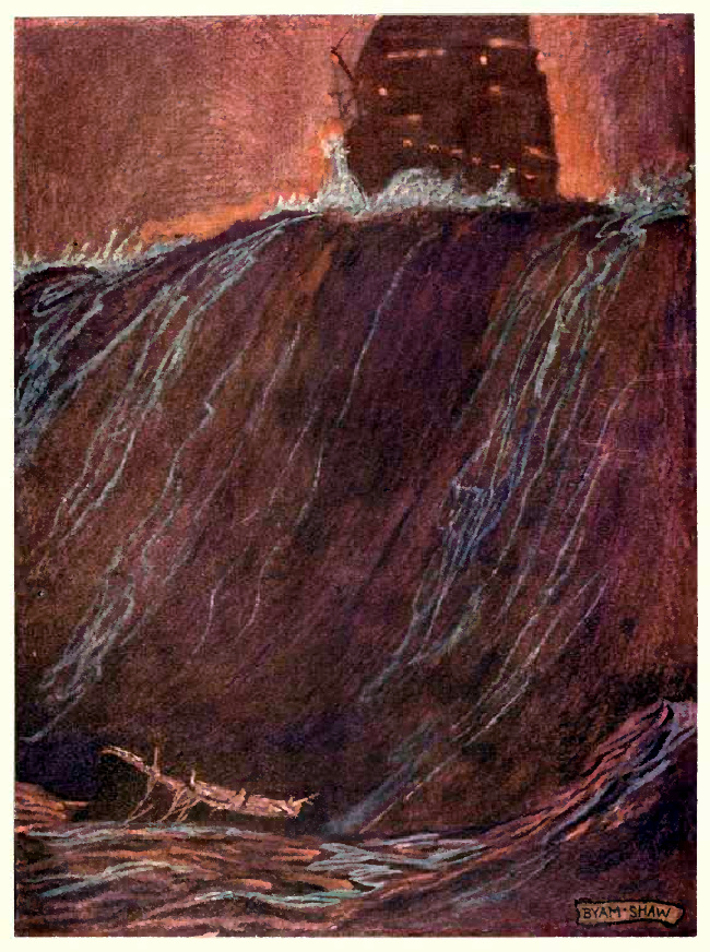 Byam Shaw's illustration for Poe's MS. Found in a Bottle in "Selected Tales of Mystery" (London : Sidgwick & Jackson, 1909) on the page to face p. 223 with caption "Upon the very verge of the precipitous descent hovered a gigantic ship"